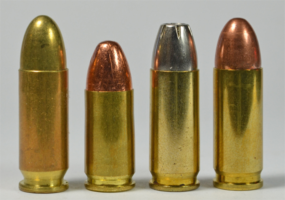 9x23mm Largo (left) compared with the 9mm Luger (2nd from left), 9x23mm Winchester (2nd from right) and 9x23mm Steyr (far right).